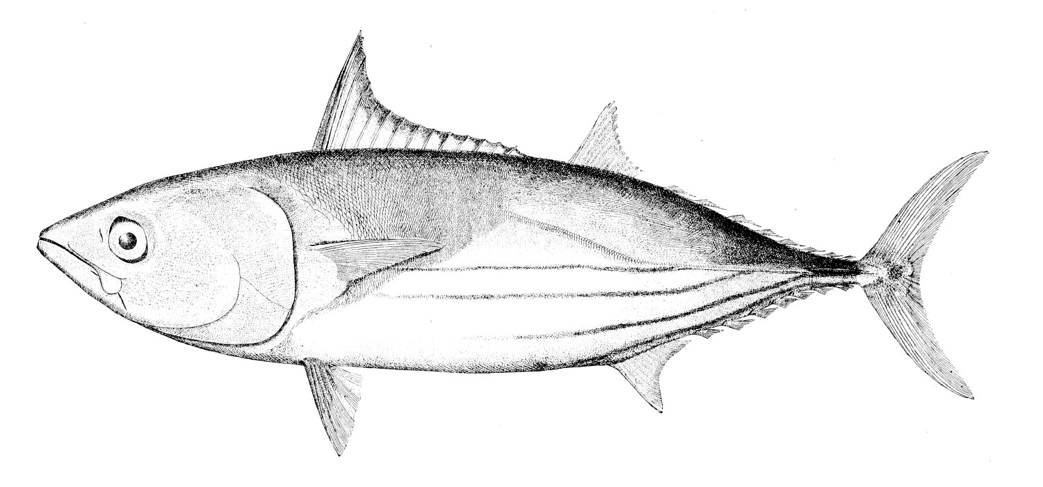 The striped or oceanic bonito, Euthynnus pelamys (=Katsuwonus pelamis). The specimen #20762, sent from Museum of Comparative Zoology, Cambridge, Mass.